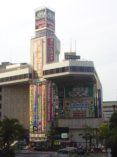 Yodobashi Camera Multimedia Yokohama